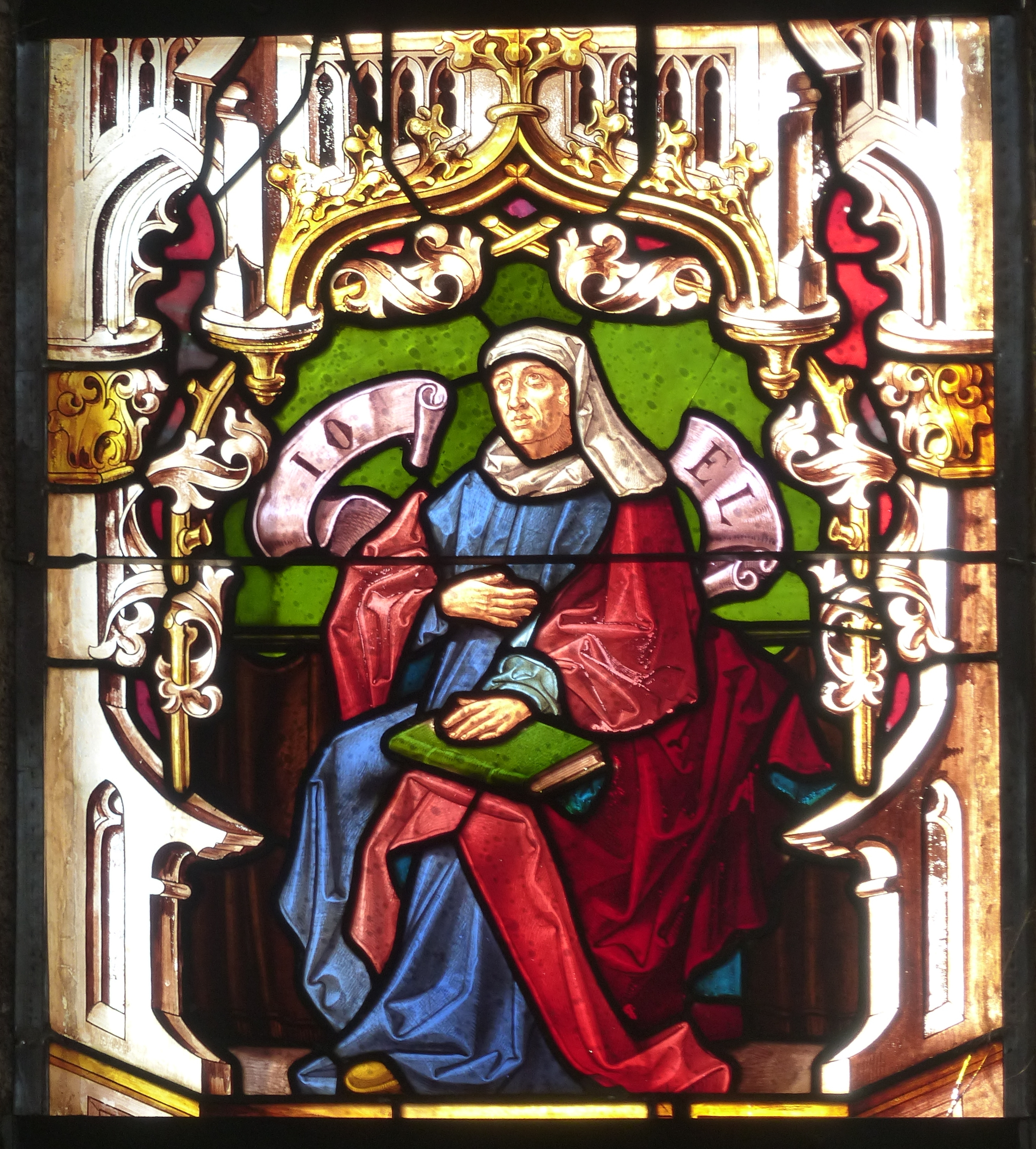 Gramastetten ( Upper Austria ). Saint Lawrence parish church: Stained glass window ( 1883 ) by Josef Kepplinger - Prophet Joel. Dieses Bild wurde anlässlich des österreichischen Tags des Denkmals 2019 in Oberösterreich eingereicht. Diese Datei wurde im Rahmen von WikiDaheim 2019 in Österreich erstellt und hochgeladen.Sie wurde dem Themenbereich Denkmalschutz zugeordnet.